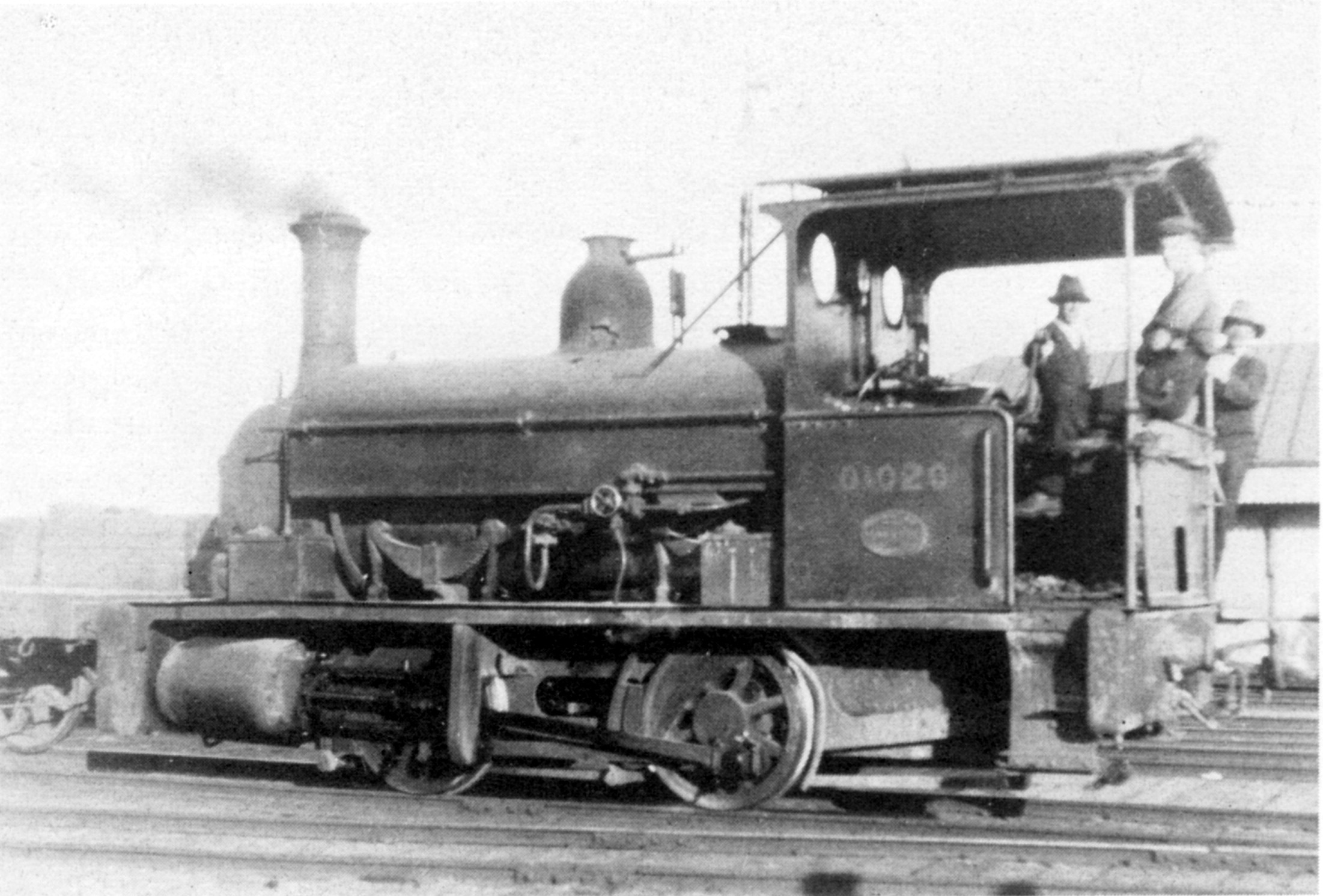 Cape Government Railways 0-4-0ST no. 1020 of 1901, ex Harbour Board Port Elizabeth no. L